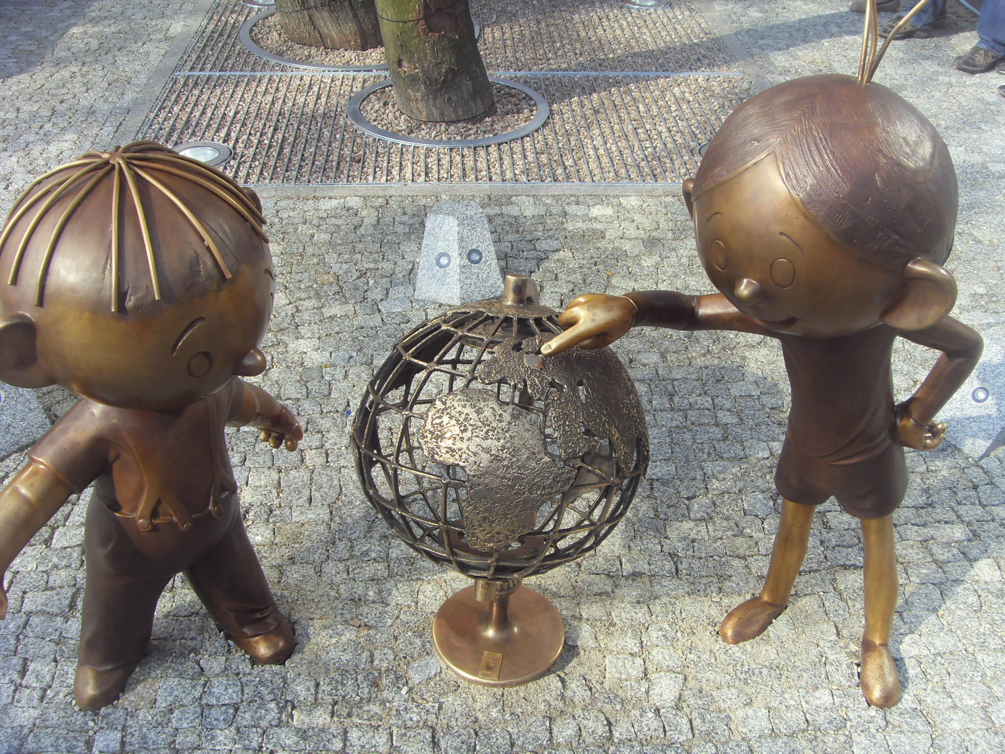 Bolek and Lolek monument in Bielsko-Biała